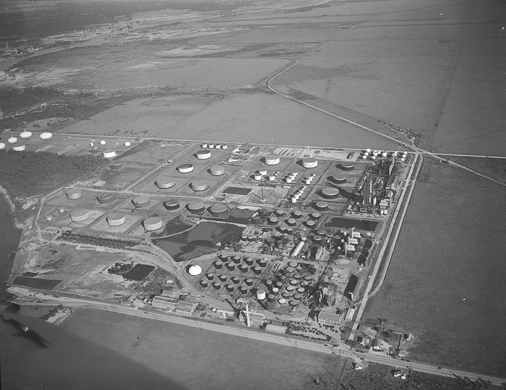 Title: Crown Central Petroleum refinery, on spec. Houston Creator: Richie, Robert Yarnall Date: December 1945 Part Of: Robert Yarnall Richie Photograph Collection Place: Houston, Texas Physical Description: 1 negative: film, black and white; 10.4 x 13.1 cm. File: ag1982_0234_2788_01_crowncentpetro_sm_opt.jpg Rights: Please cite DeGolyer Library, Southern Methodist University when using this file. A high-resolution version of this file may be obtained for a fee. For details see the web page. For other information, . For more information, View the Robert Yarnall Richie Photograph Collection